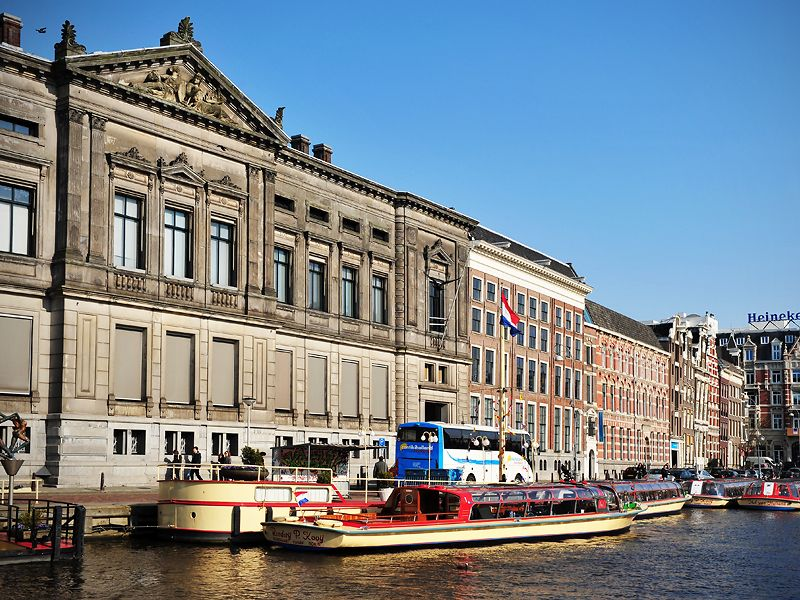 Amsterdam University Library Special Collections